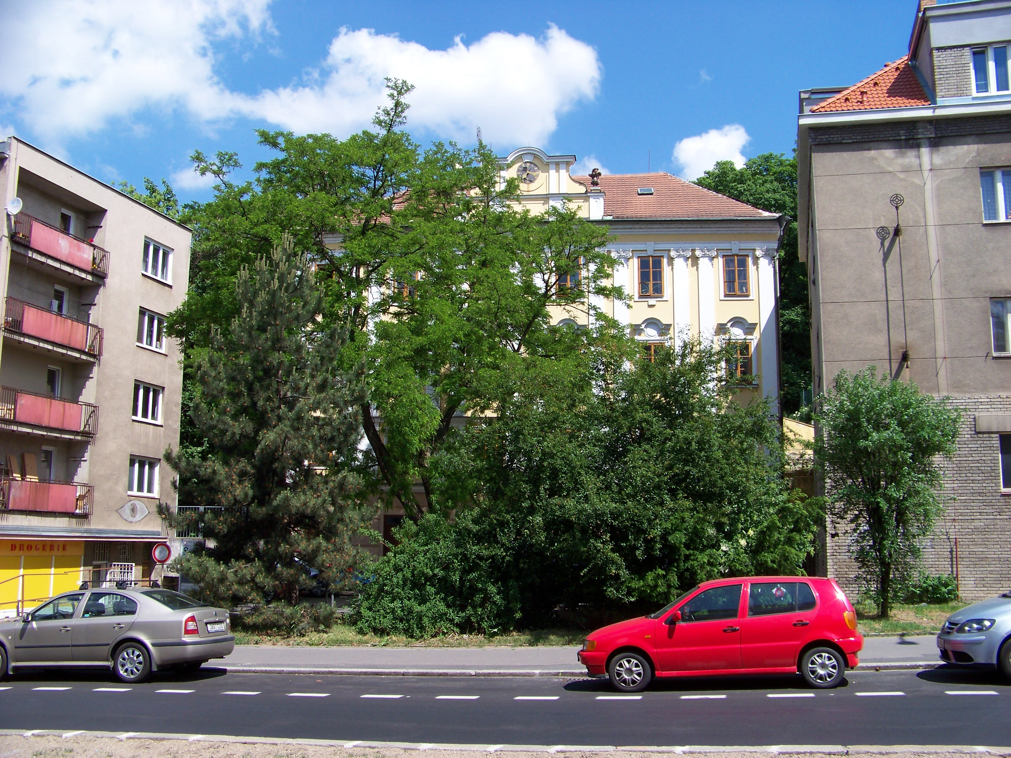 Prague-Podolí, the Czech Republic. Jeremenkova 411/9.